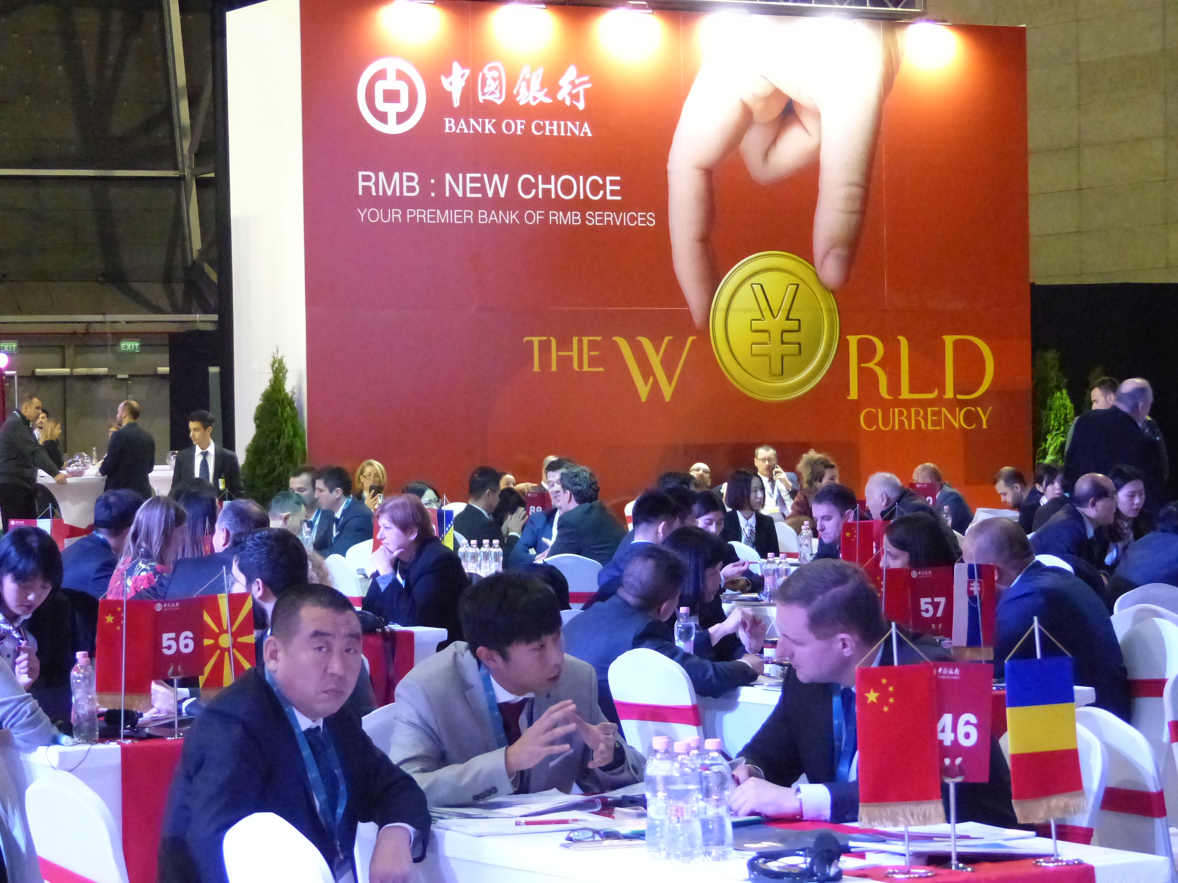 China-CEEC Matchmaking Event 2017. Taken on the 27th of November, 2017. Aréna, Budapest, Hungary.